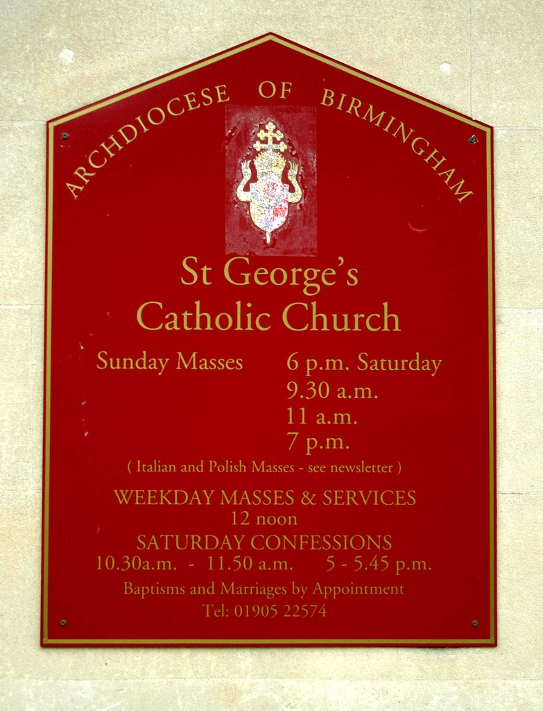 St. George's Catholic Church (2) - plaque, 1 Sansome Place, Worcester